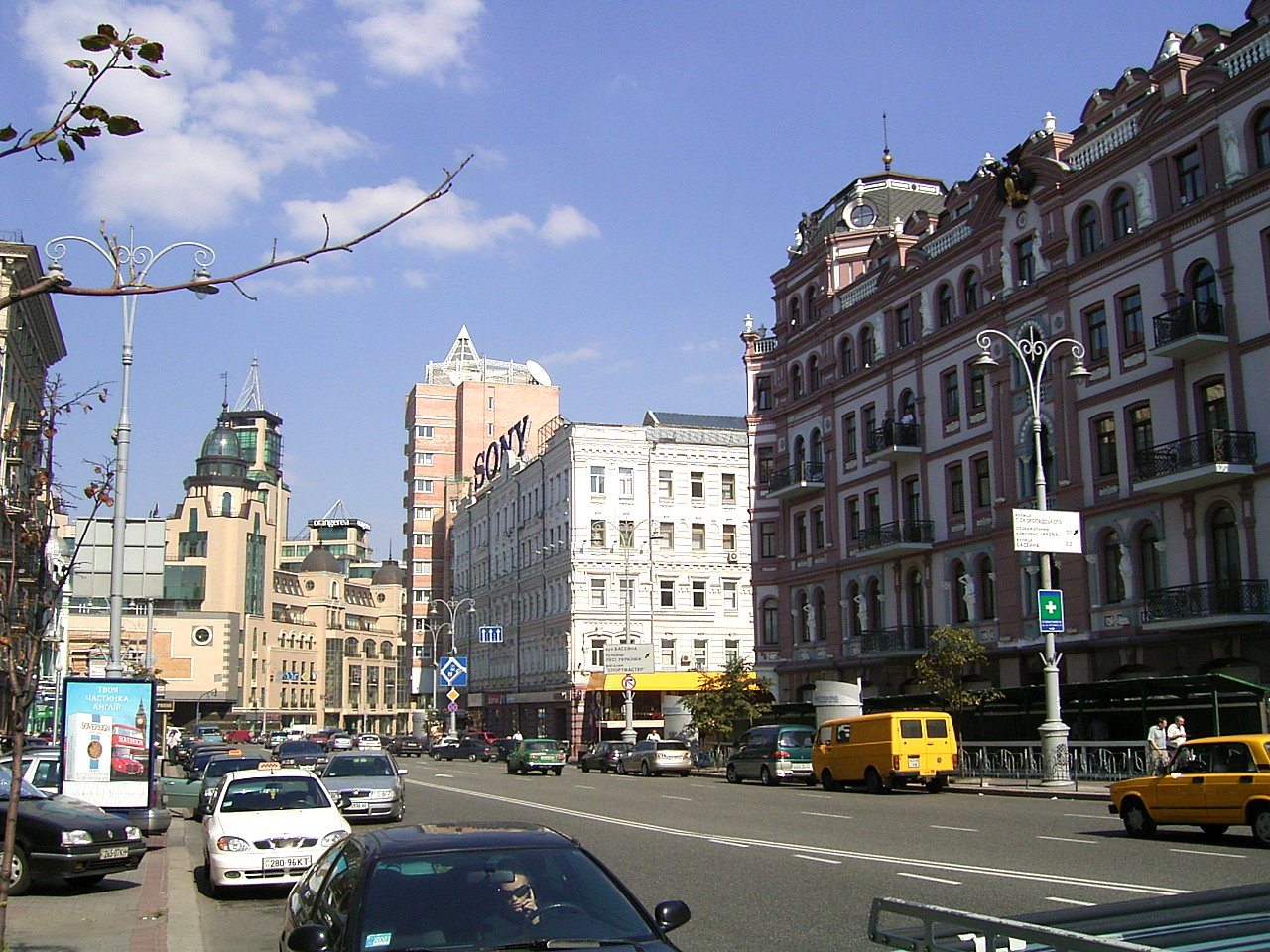 Chervonoarmiis'ka Street in Kiev.